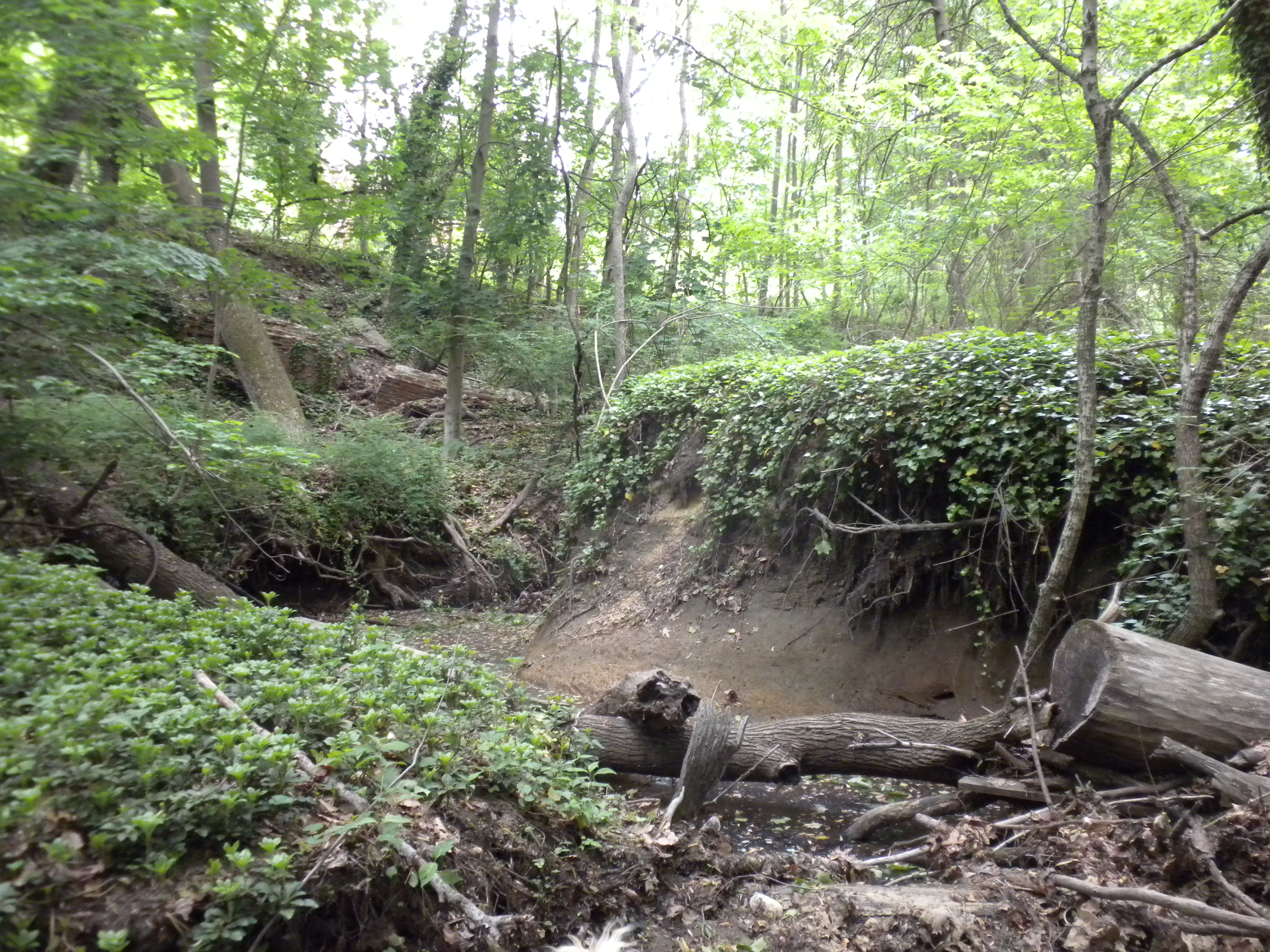 Hadrosaurus Foulkii Leidy Site a National Historic Landmark since October 12, 1994. At the east end of Maple Ave., near Cooper River, in Haddonfield, New Jersey. Near this site (I guess right here at the bottom of the pit), the first fairly complete dinosaur skeleton was discovered in 1858. It was also the first mounted dinosaur skeleton. NHL plaque is just above this about 10 yards north and says that the site is "adjacent."